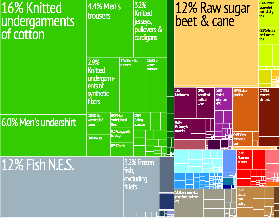 Export Trading Treemap. From MIT/Harvard Atlas of Economic Complexity